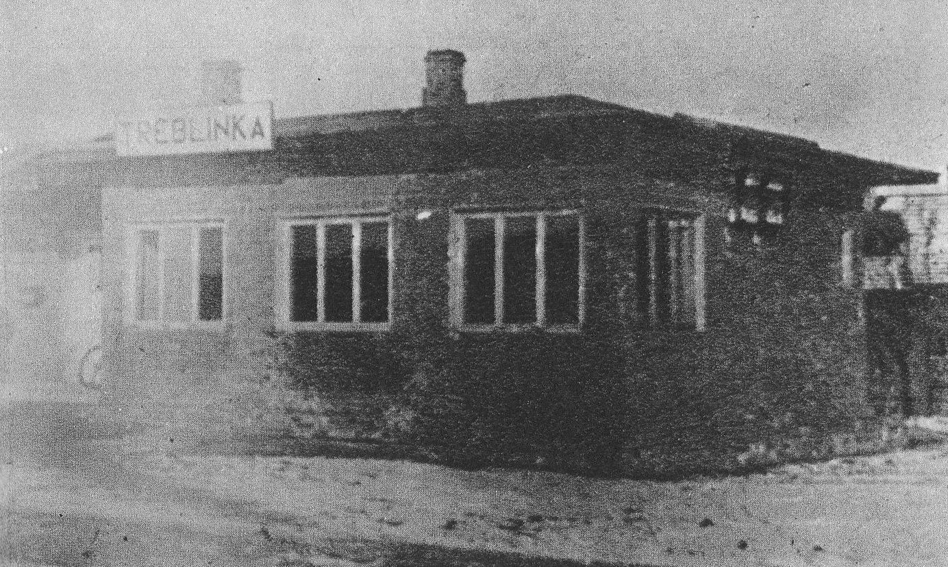 Building of Treblinka railway station (destroyed by the Germans in 1944).